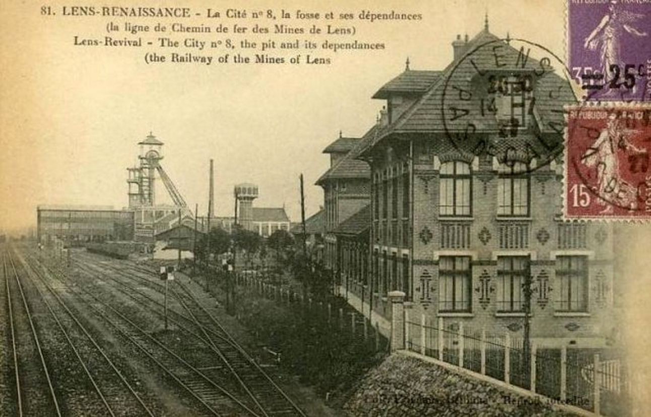 Coalpits n° 8 - 8 bis, Compagnie des mines de Lens, Vendin-le-Vieil, Pas-de-Calais, France.